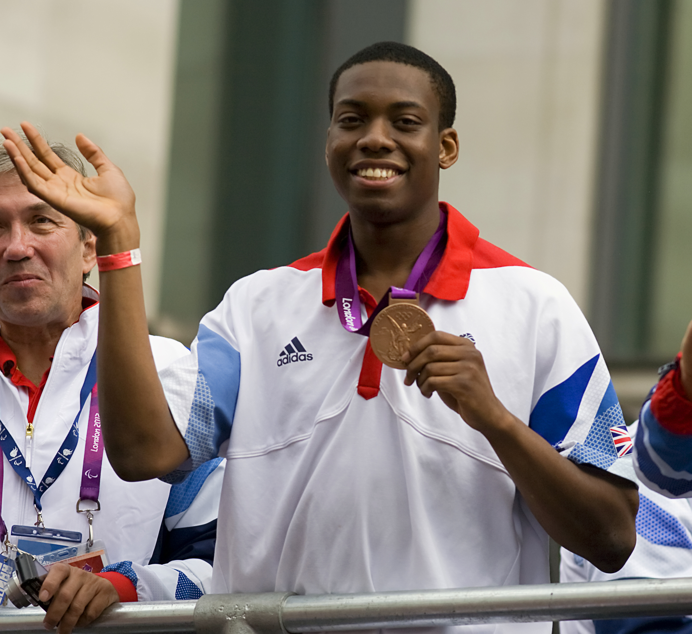 London 2012 Olympic & Paralympic Games Victory Parade, 10th September